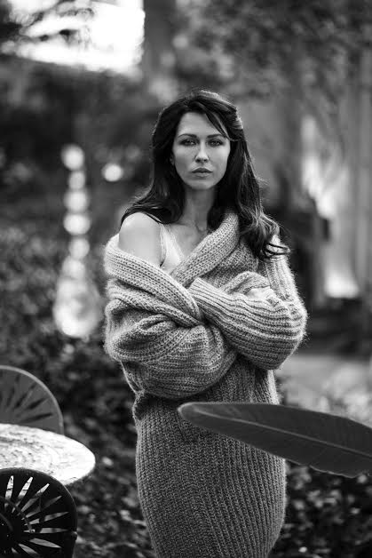 portrait of actress and writer, Margo Stilley, Beverly Hills 2015